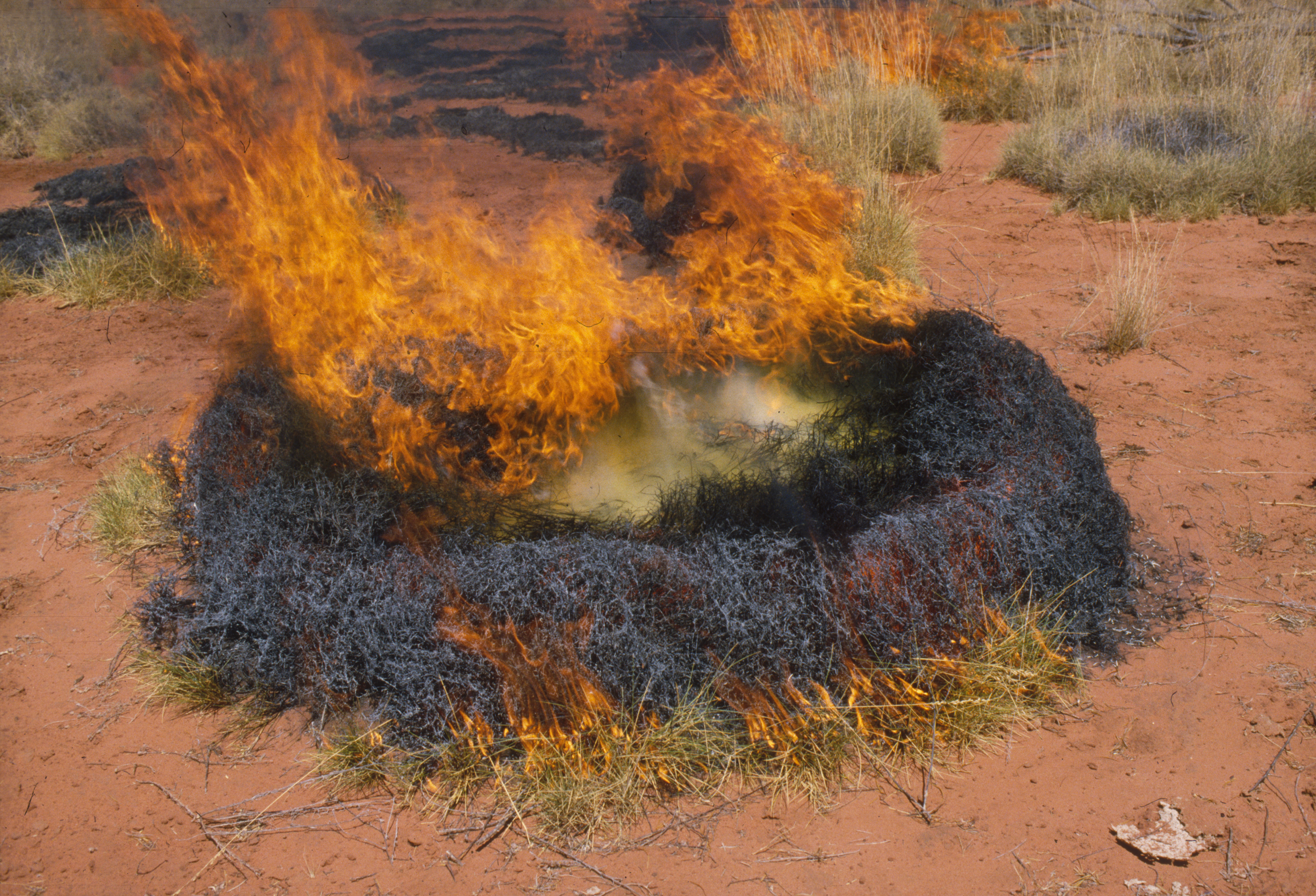 A ring of spinifex grass on fire during a controlled burn. Photo credit: Robert Kerton